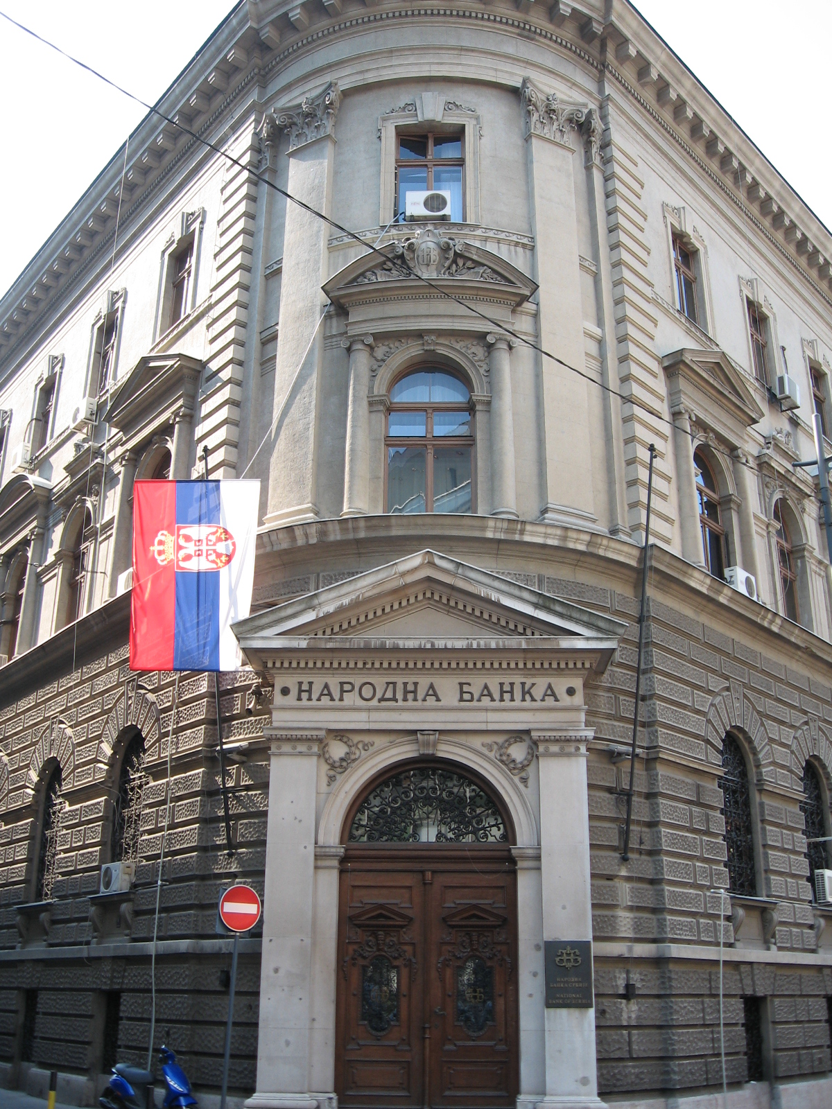 National Bank of Serbia